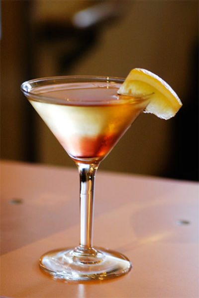 Image of Martini